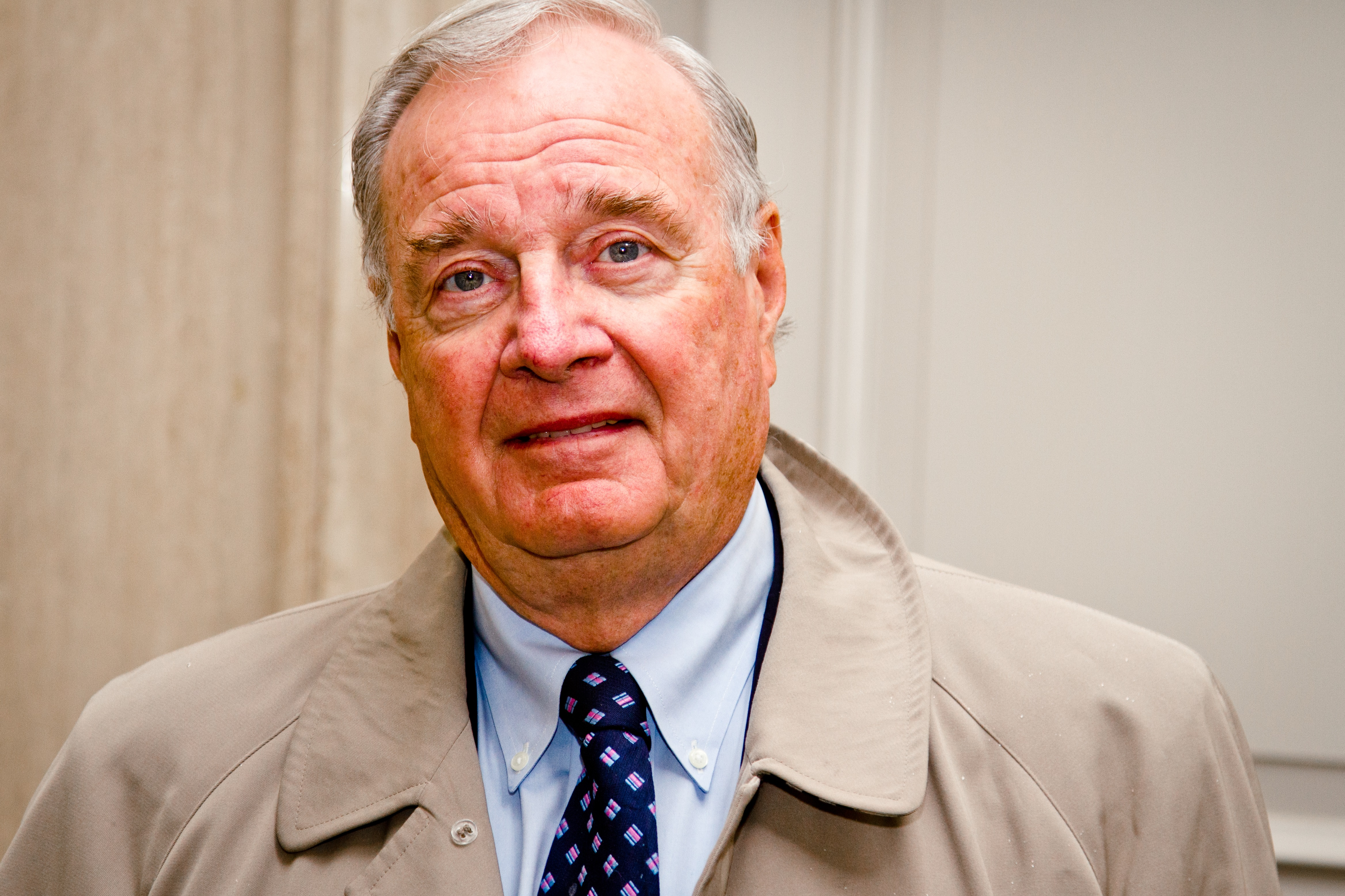 Former Canadian Prime Minister Paul Martin